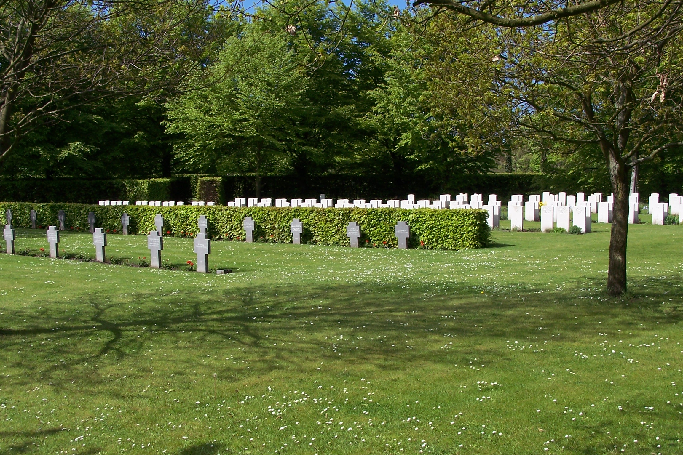 Esbjerg War Cemetery, the smaller German section, Allied section behind Photo: Chris Nyborg, May 2005